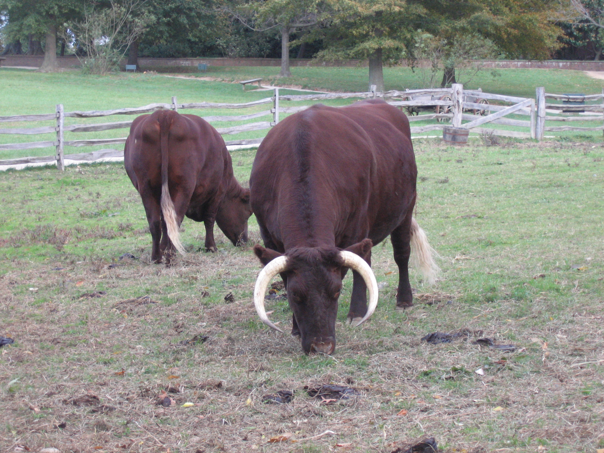 Milking Devon's at pasture at Mount Vernon.